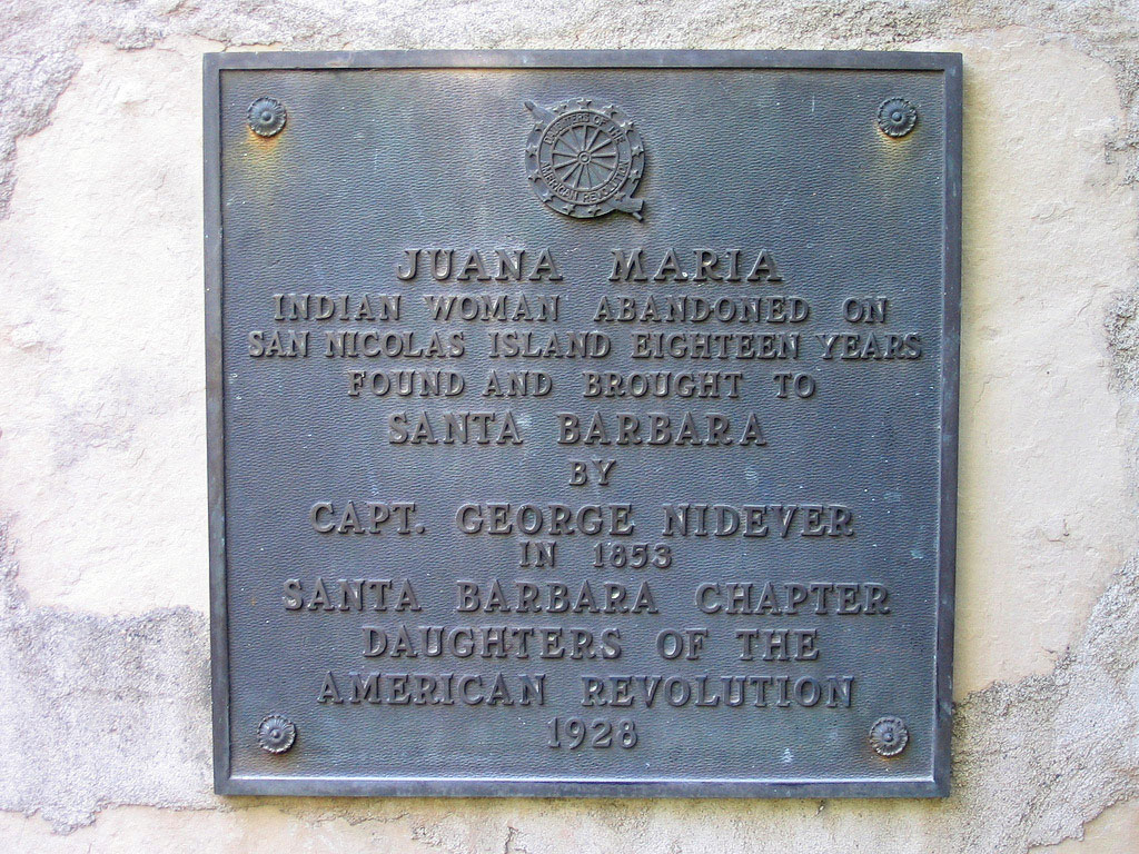 A plaque commemorating Juana Maria, who died in 1853 and was the last living member of the Native American Nicoleño branch of the Chumash tribe, from San Nicholas Island off the coast. The plaque was placed at the Santa Barbara Mission cemetery in 1928 by the Daughters of the American Revolution.